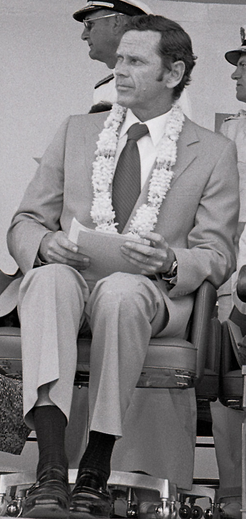 Ambassador Richard W. Murphy